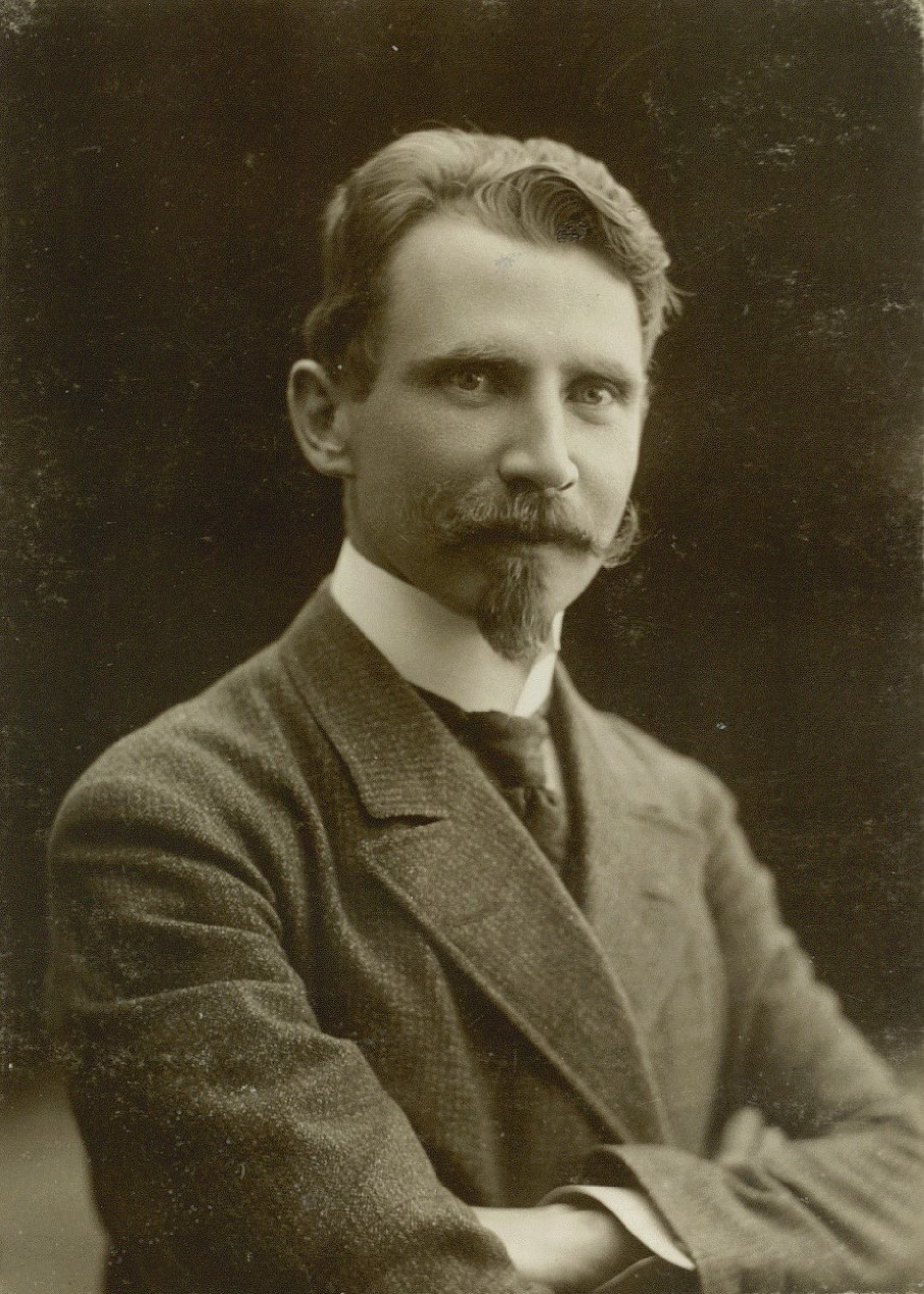 Ludvig Mylius-Erichsen (1872-1907), Danish journalist and arctic explorer, leader of the Denmark Expedition.